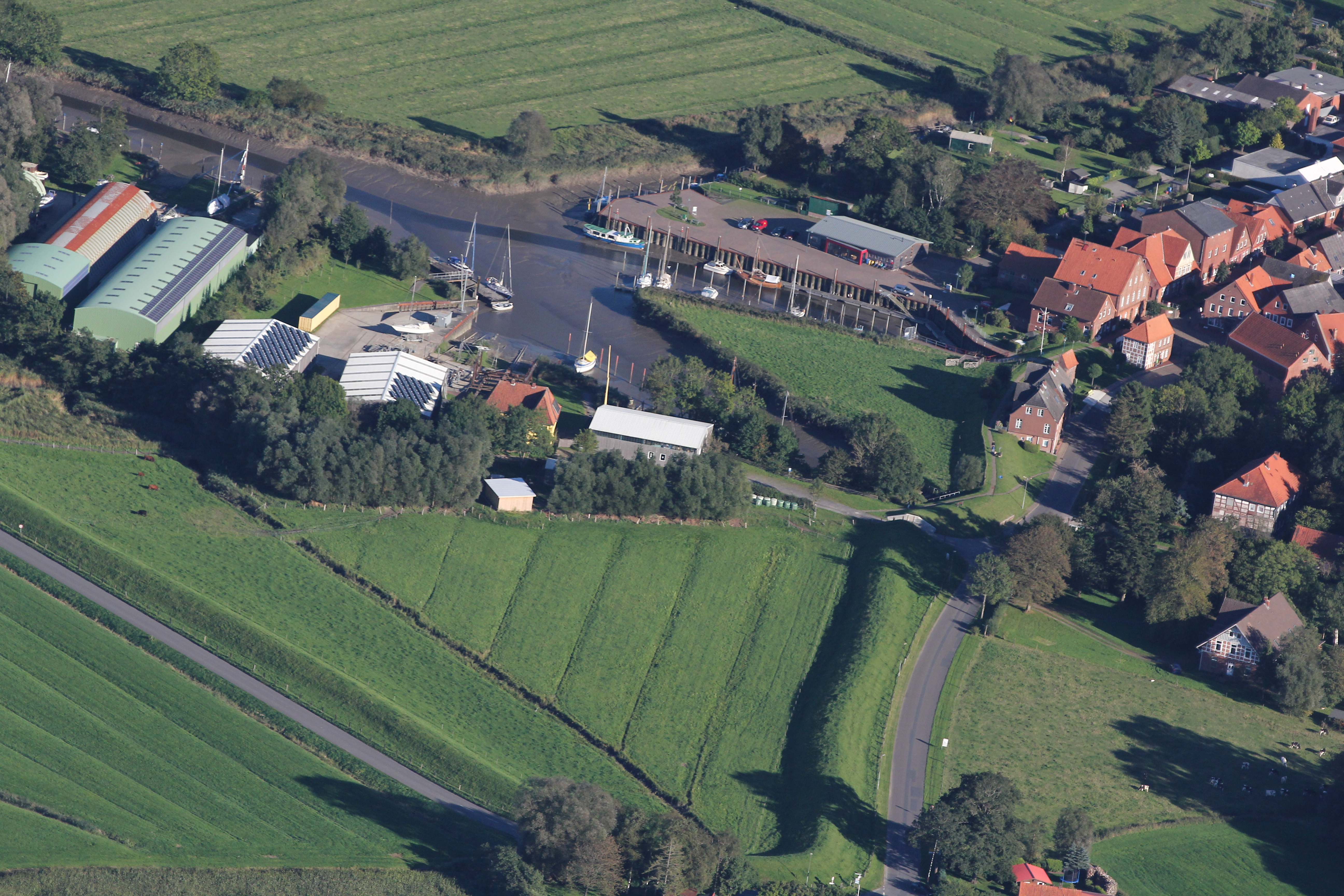 A aerial photograph of a unidentified location.